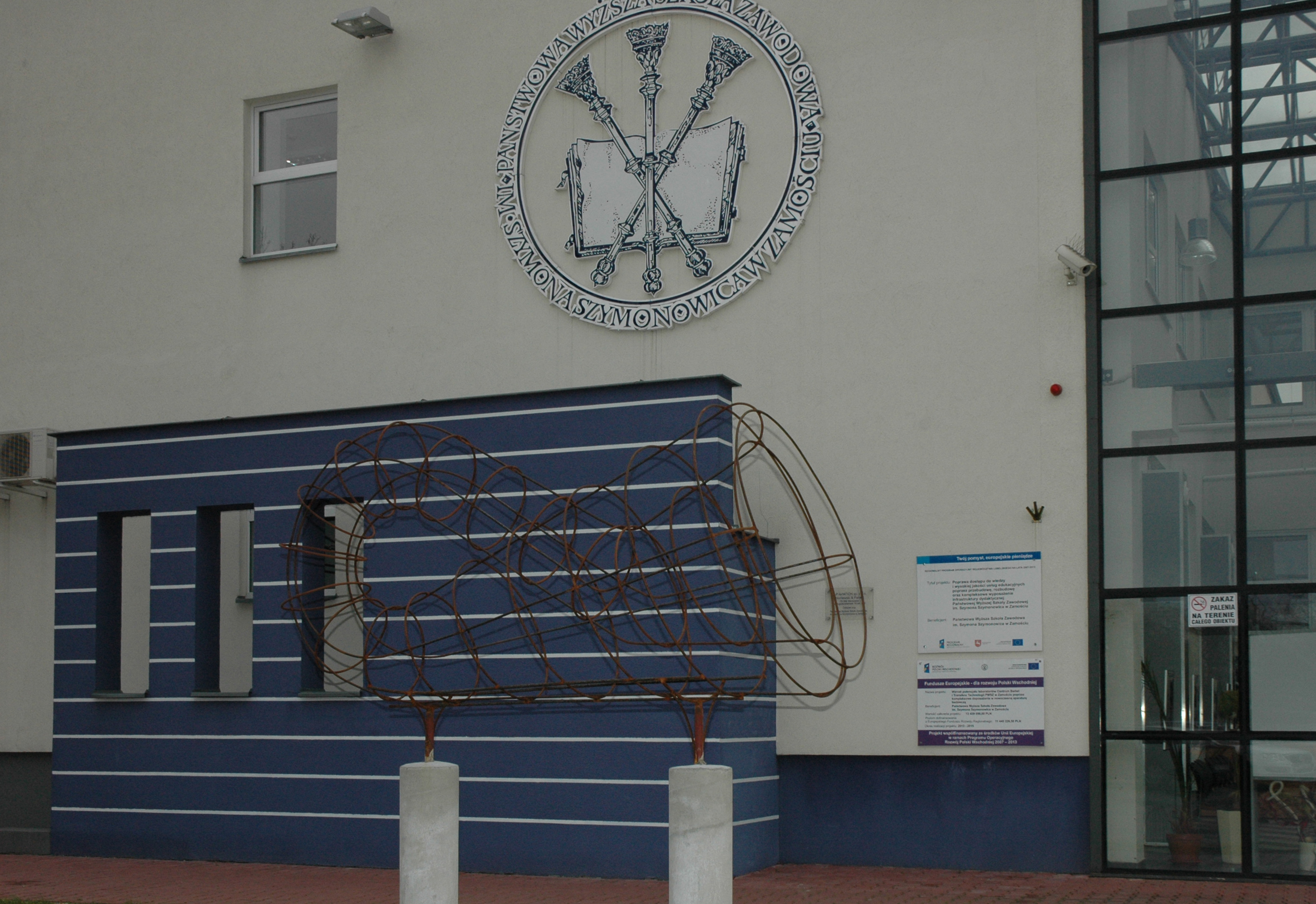 State School of Higher Education in Zamość, Poland, boasts a monument of the Klein bottle. The idea for it came from Professor Witold Mozgawa. It was designed by the Cracow artist Paweł Bik and built in his studio. The monument of the Klein bottle is one of its kind - in Poland and perhaps in the whole world.